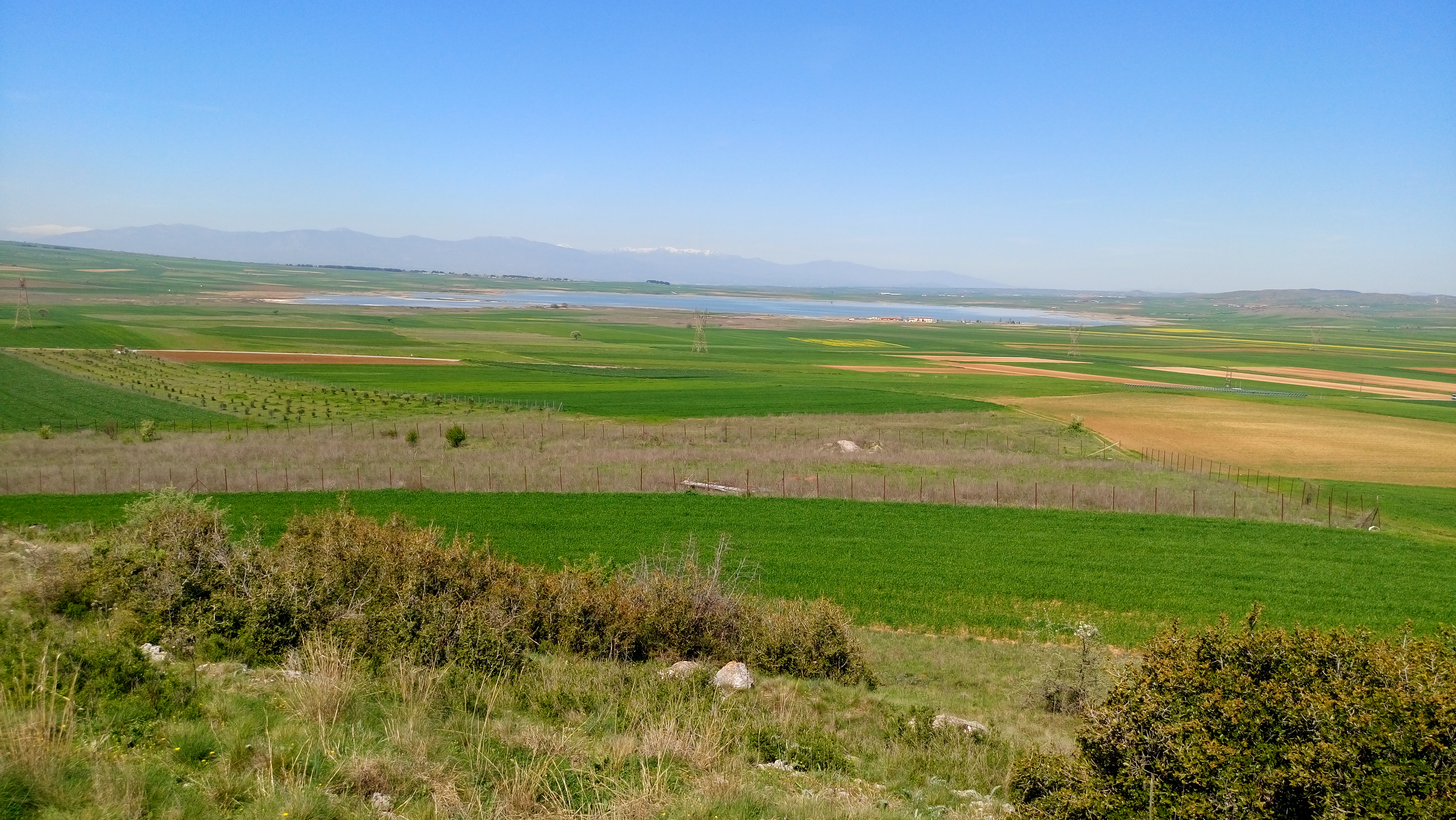 This is a photography of Natura 2000 protected area with ID GR1230001